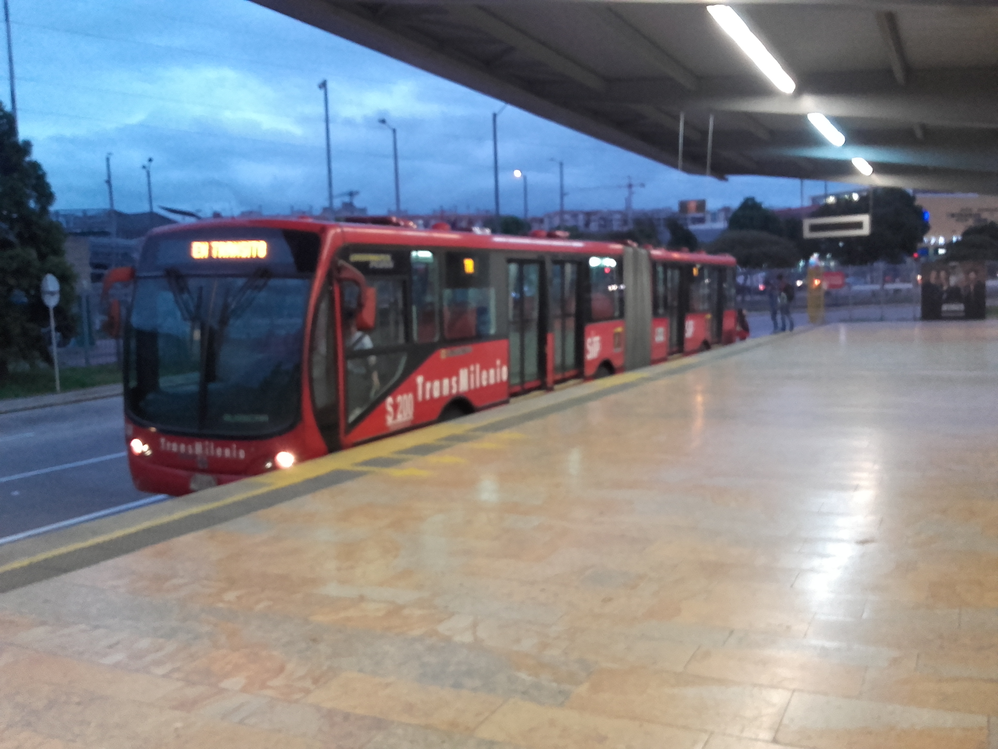 busessss